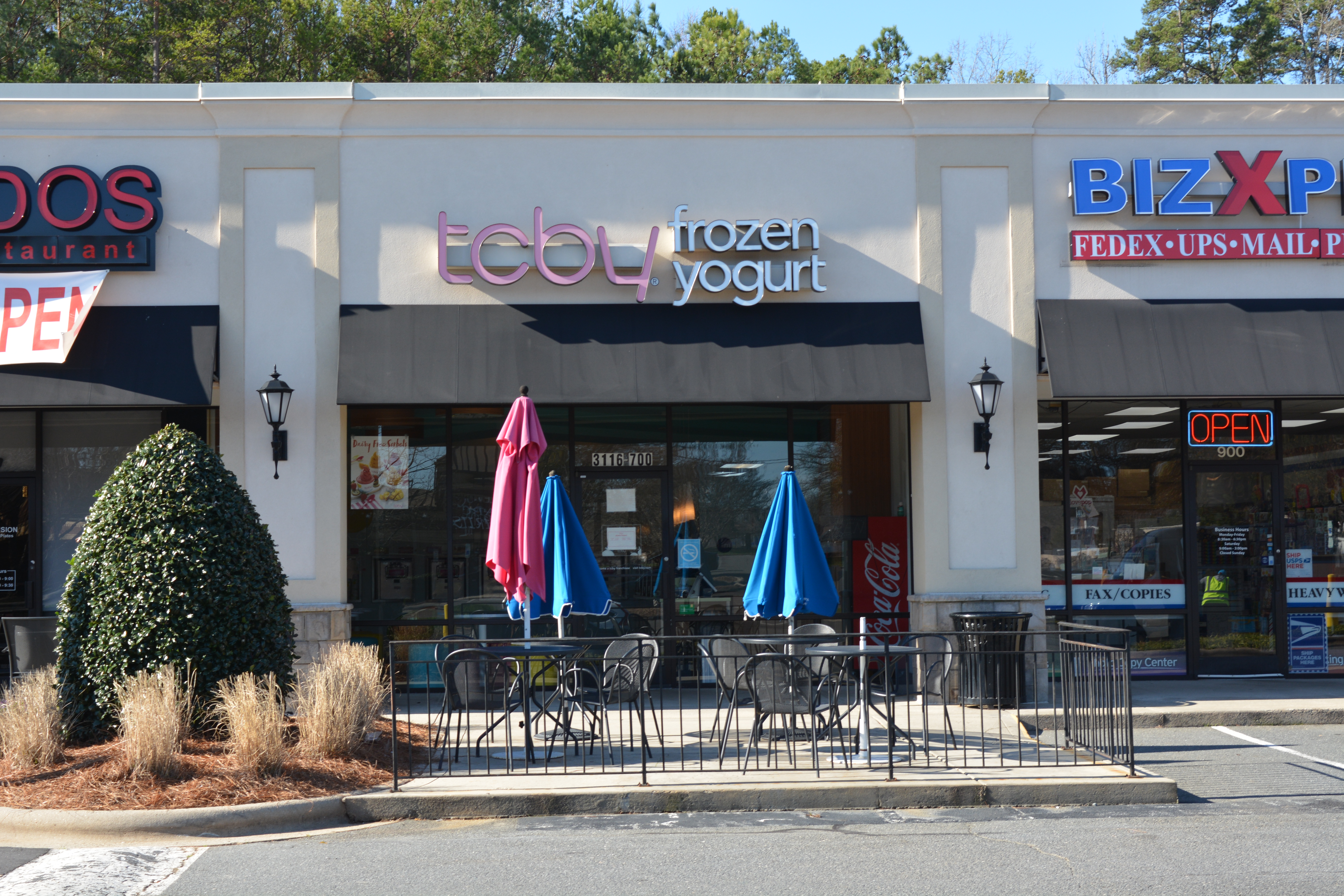 A TCBY Frozen Yogurt Resturant in Matthews, NC